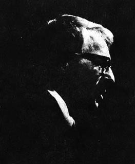 Ray Bradbury